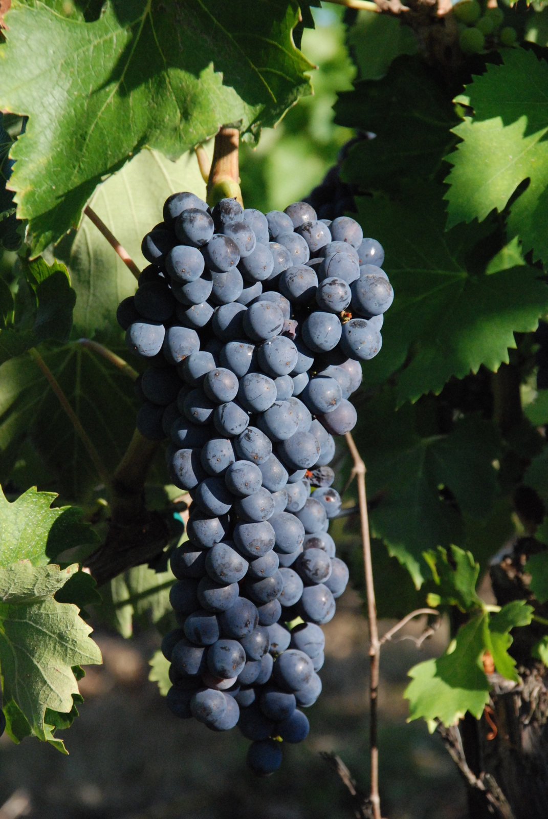 Italian wine grape Ciliegiolo grown in Tuscany and Umbria